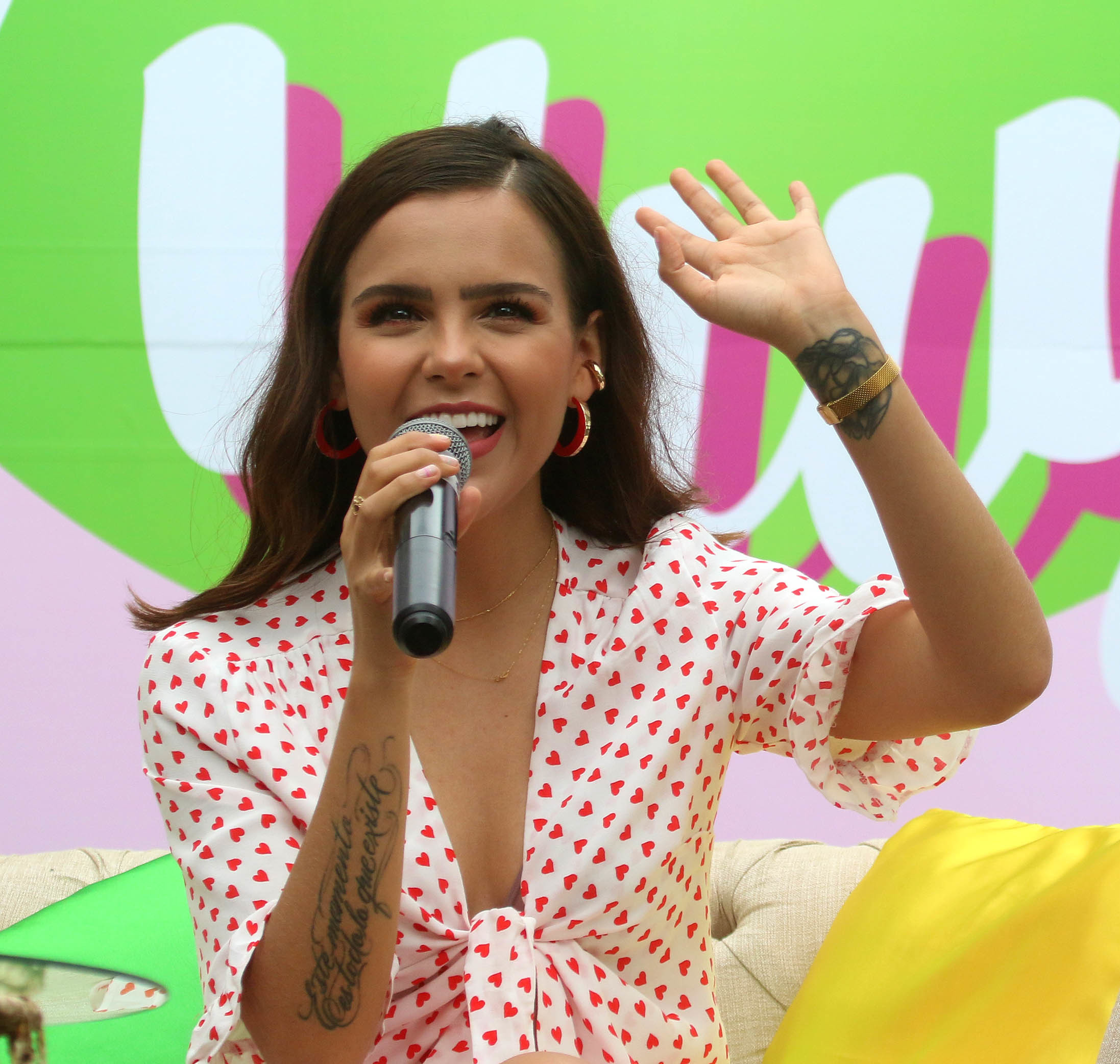 Guayaquil, miércoles 20 de junio del 2018 (Andes).-Mariand Castrejón, más conocida como Yuya, es considerada la vlogger mujer #1 del mundo, con cerca de 20 millones de seguidores, estuvo promocionando una marca de shampoo en Guayaquil.Foto:César Muñoz/Andes